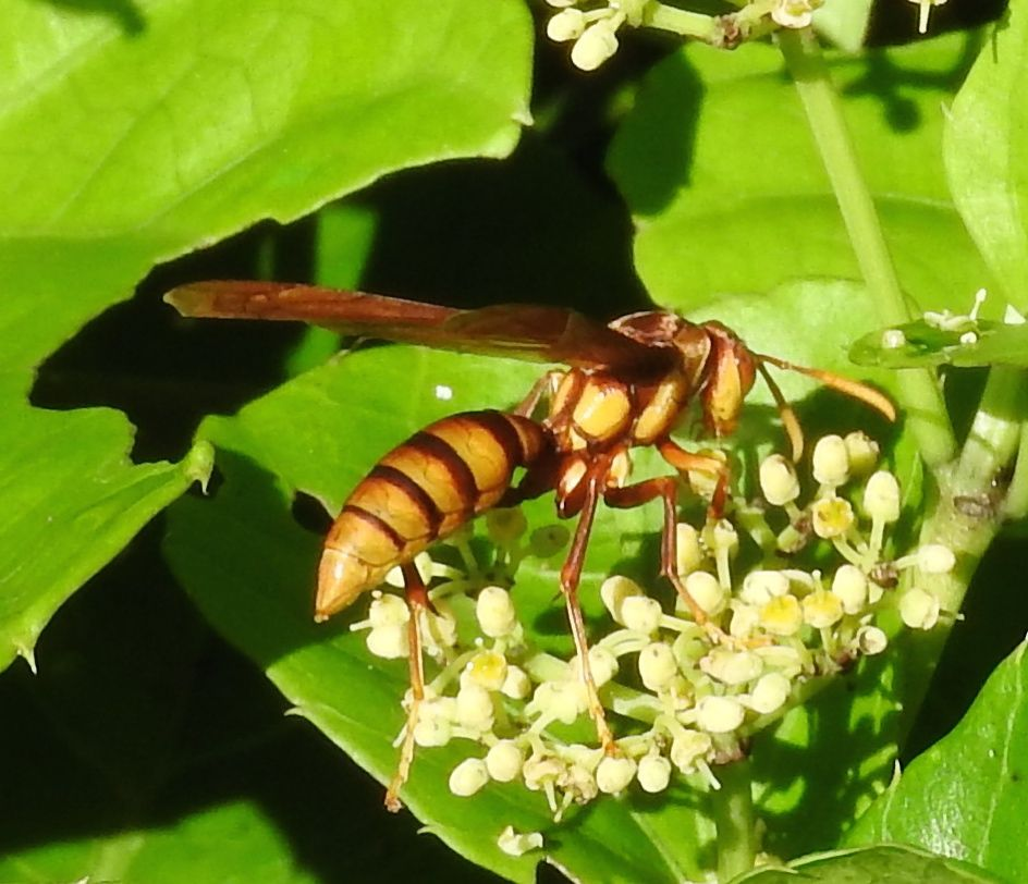 Polistes carnifex - in situ feeding on Cissus sp. in Mazatlán, Sinaloa, Mexico at 19:58 on 28 September 2017 photographed by Francisco Farriols Sarabia